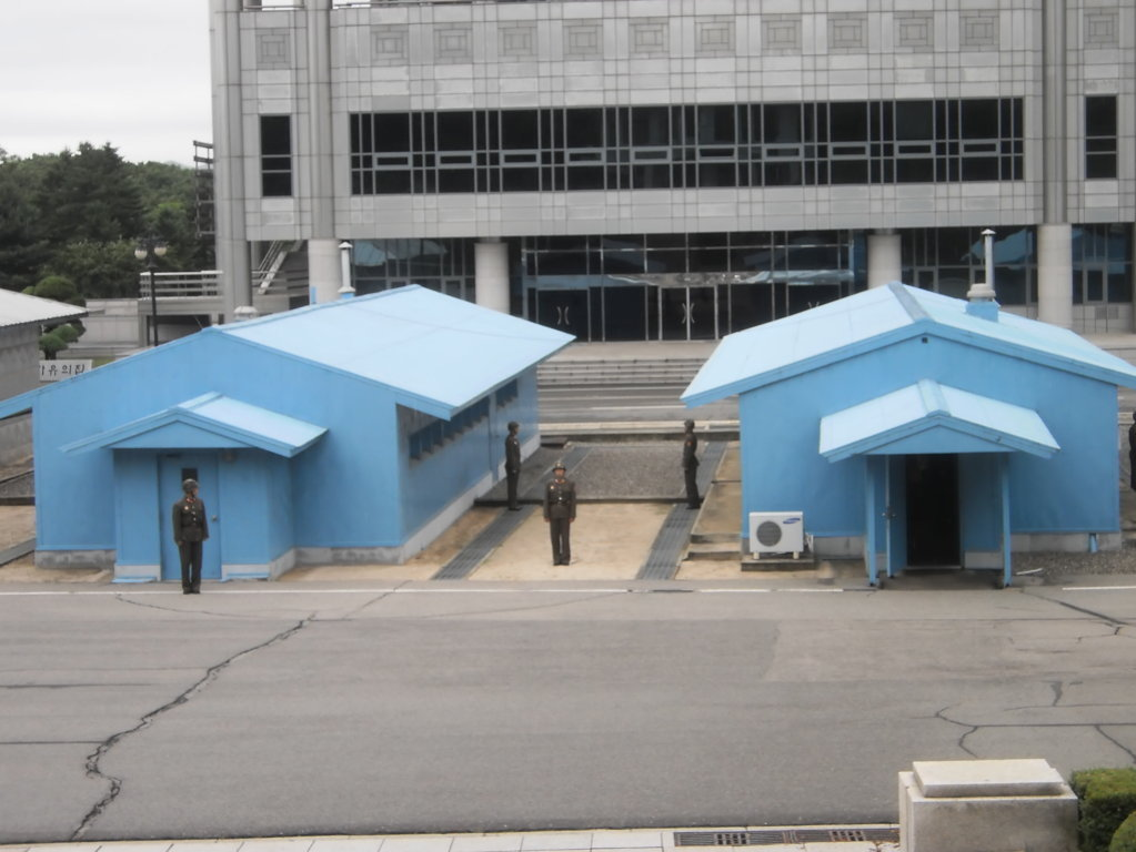 The DMZ from the North Korean side